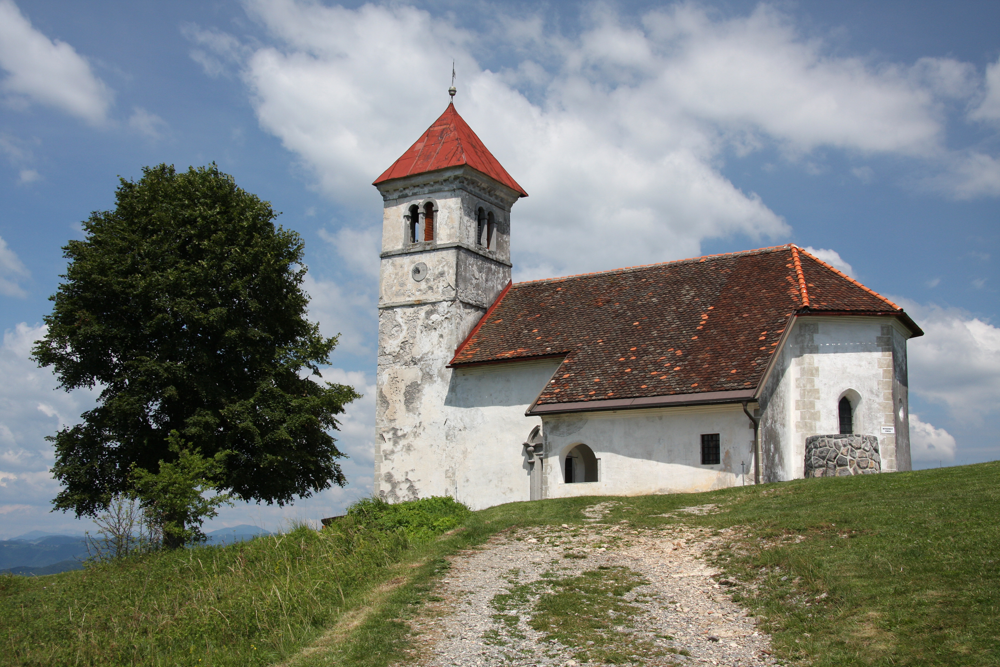 St. Ana, church and hill above Podpeč (Brezovica municipality), Slovenia